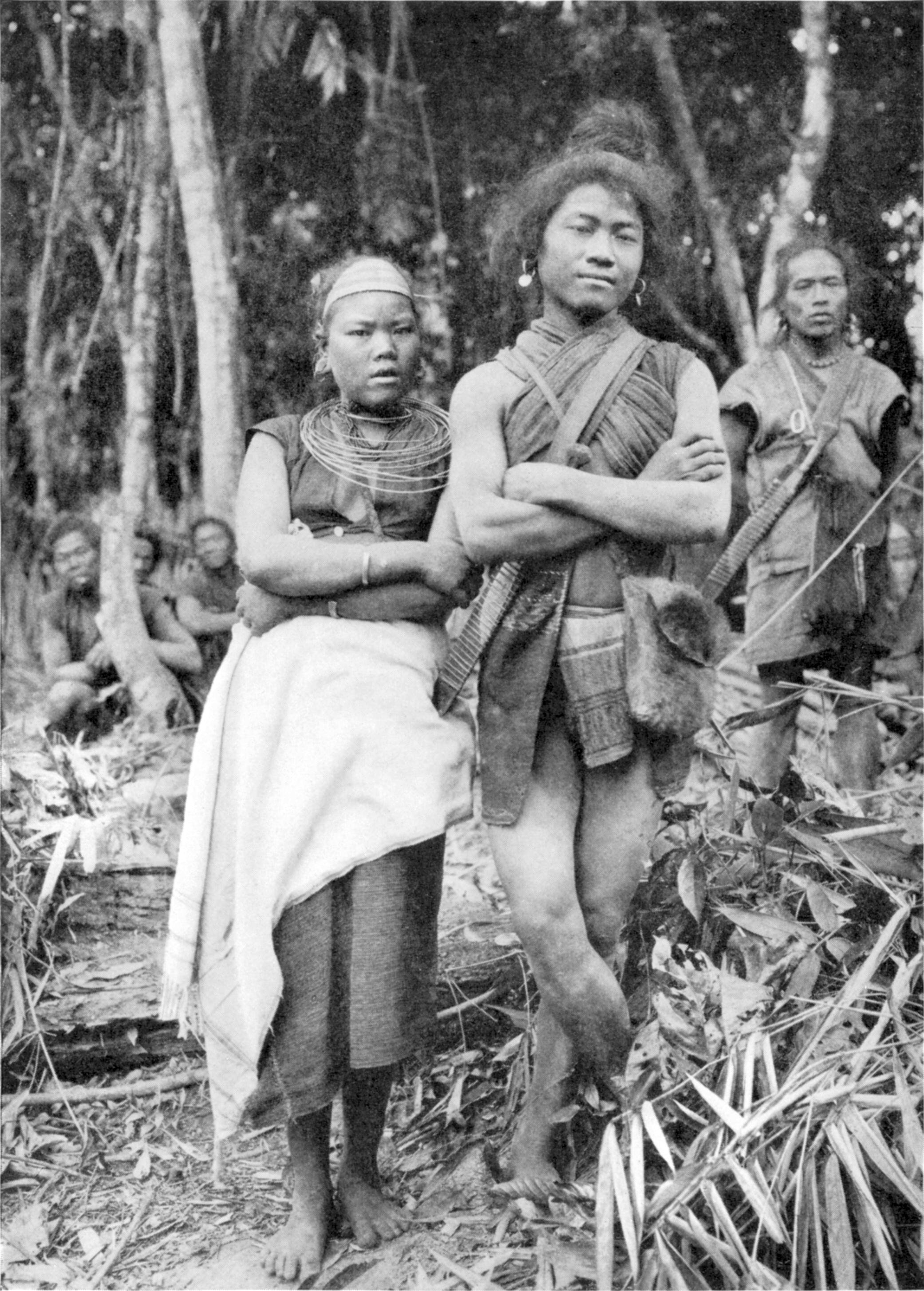 Members of the jungle tribe of Mishmi, in the forests of Northern Assam. After finding the Chaulmoogra trees in northern Burma, the author proceeded to Calcutta and thence to Dibrugarh, Assam, where Chaulmoogra trees were also found, as well as these interesting people.